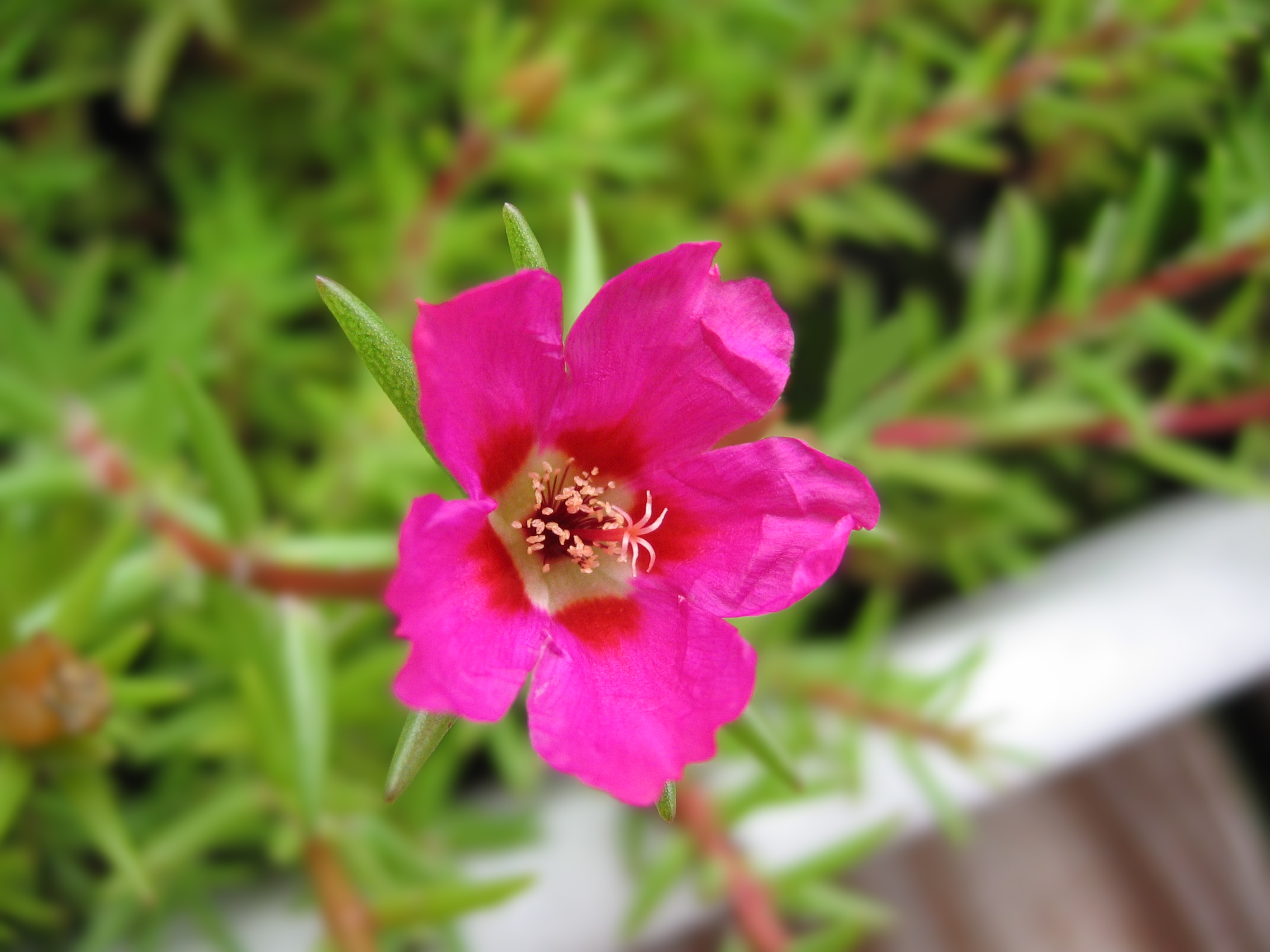 A flower of Portulaca Grandiflora (Moss Rose)